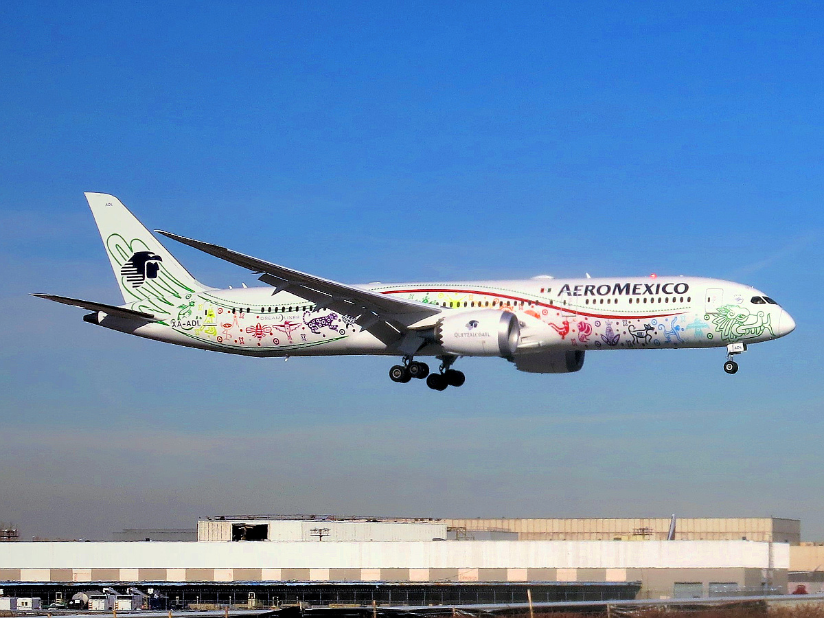 An Aeroméxico Boeing 787-9 Dreamliner is on final approach to John F. Kennedy International Airport's Runway 13L. This airframe, painted in a special livery commemmorating Quetzalcoatl, is photographed over the Runway 13L threshold.